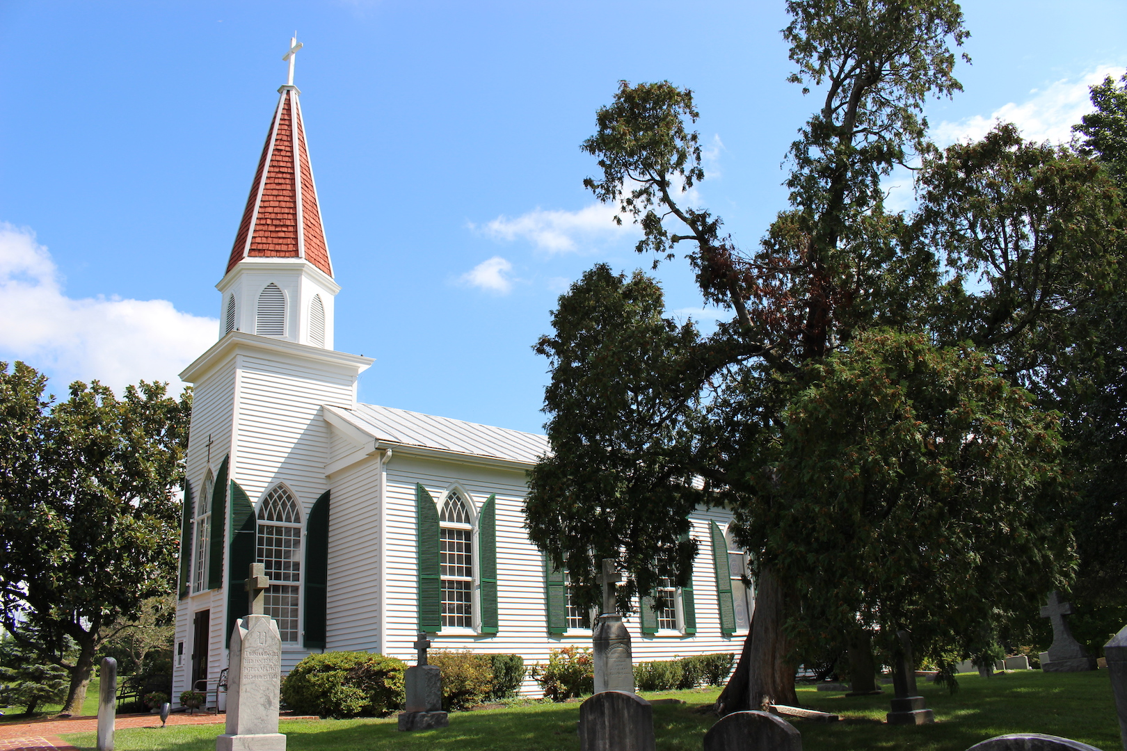 Historic church (1858) located on Ox Road & Fairfax Station Rd in Fairfax Station, VA. Known for its use by Clara Barton (founder of the Red Cross) to care for wounded Civil War soldiers in 1862.